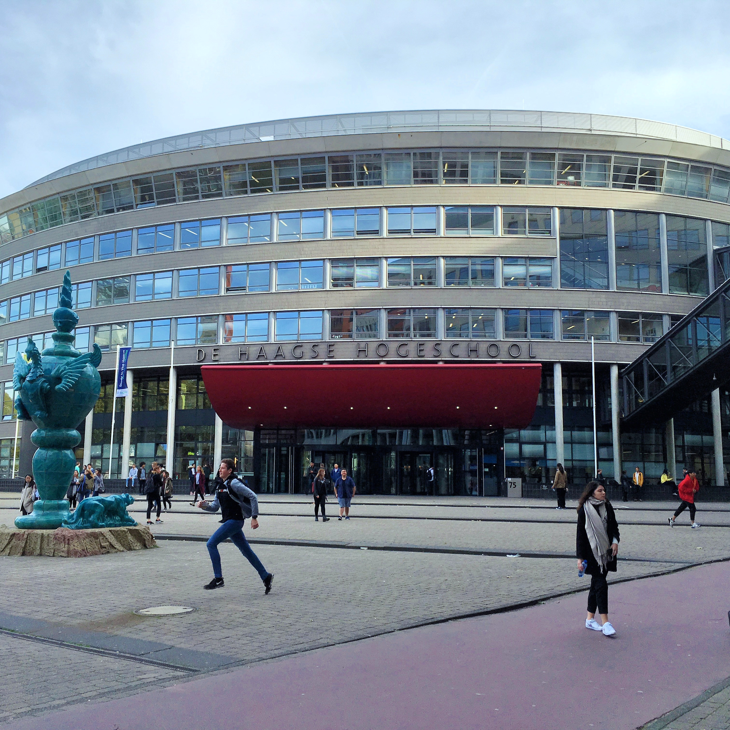 The Hague University of Applied Sciences and surroundings